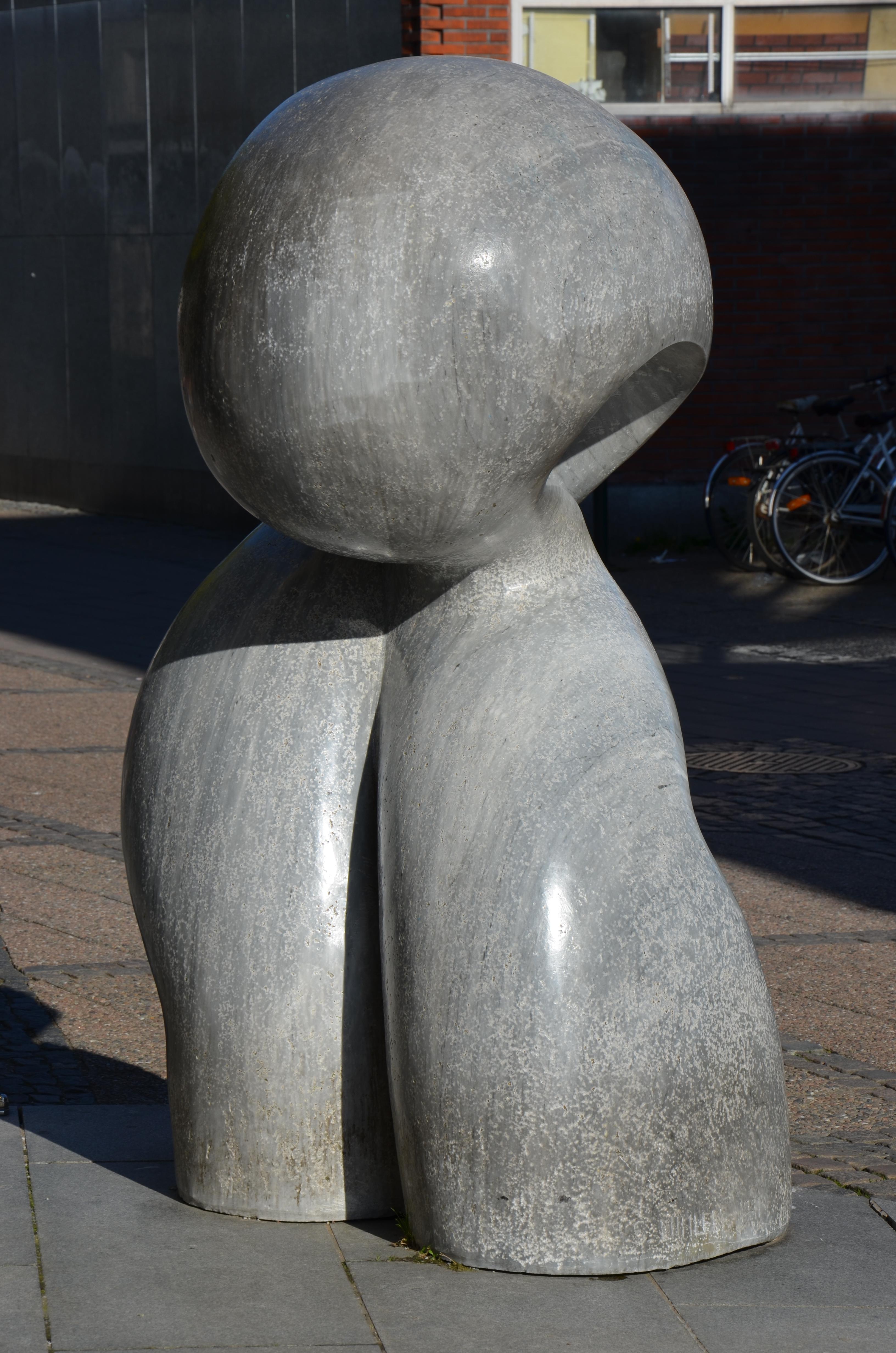 Staffan Nihlen: Mänsklig åtgärds varsamhet,1991, Bardigliomarmor, Kattesund, Lund